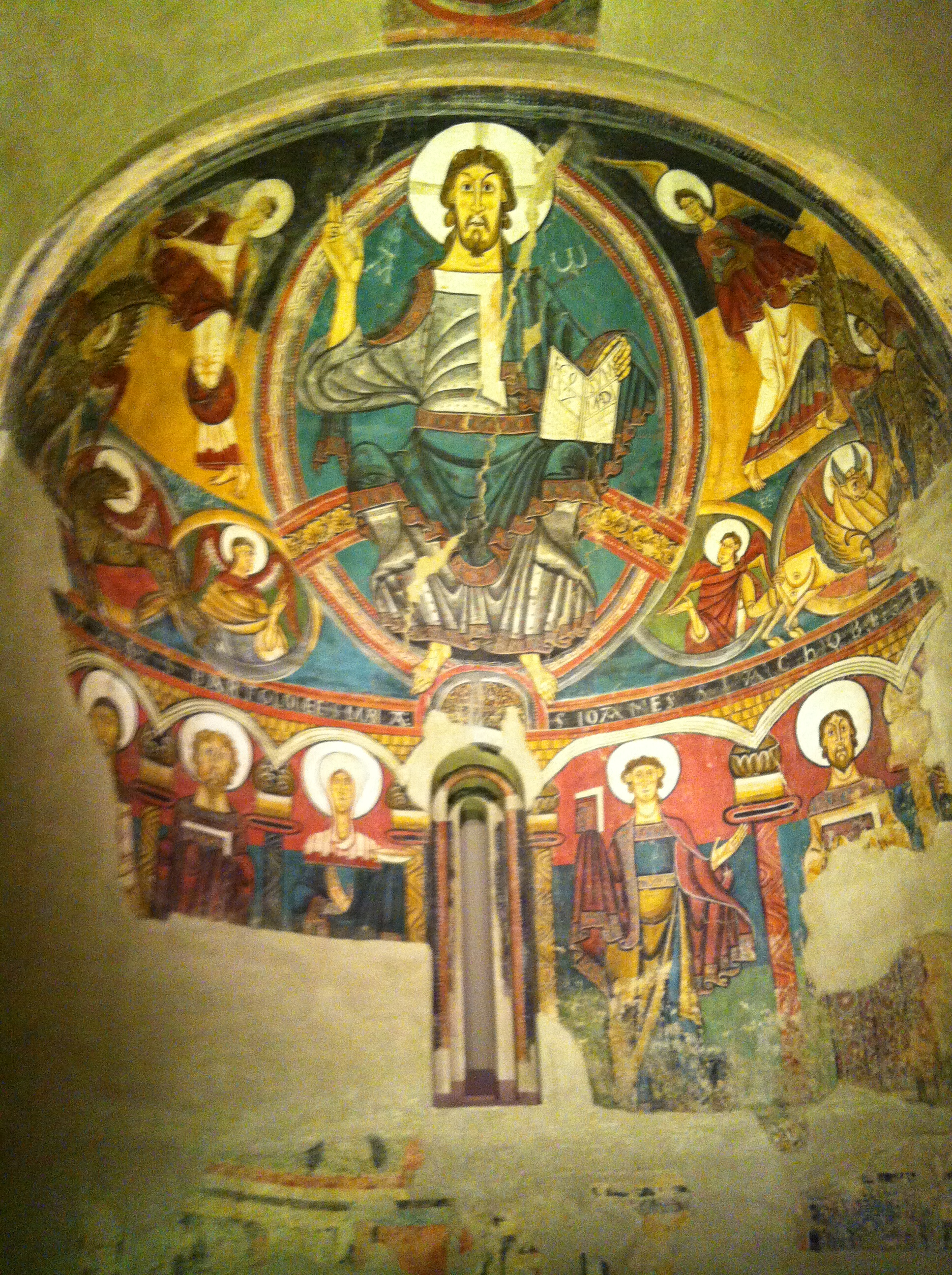 Paintings of the Central Apse of Sant Climent in Taüll, now conserved at MNAC; the National art Museum of Catalonia.